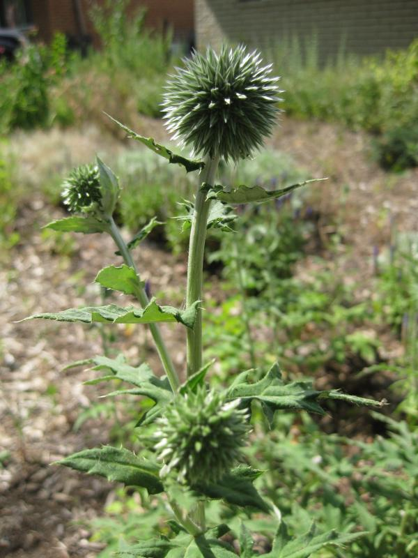 Globe Thistle